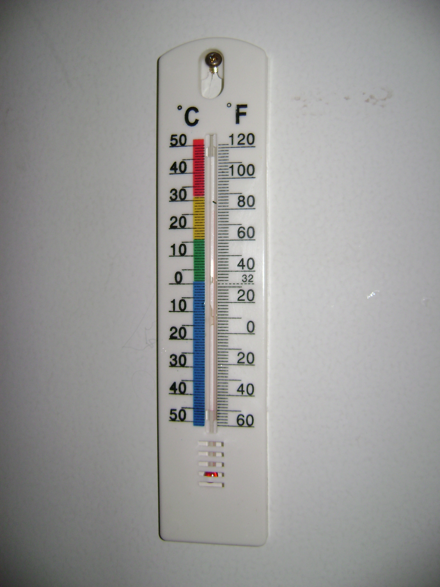 Thermometer